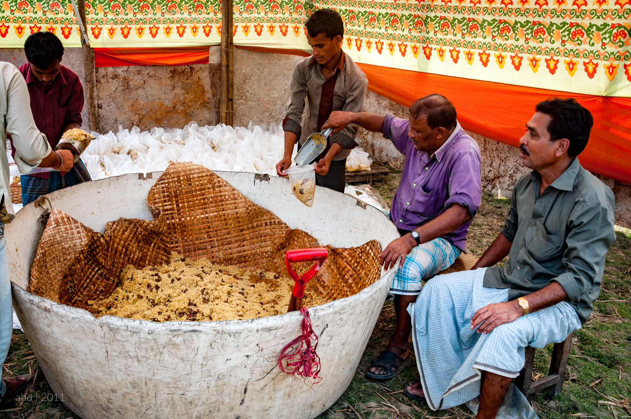 Traditional Mejban (cooking), Chittagong, Bangladesh.